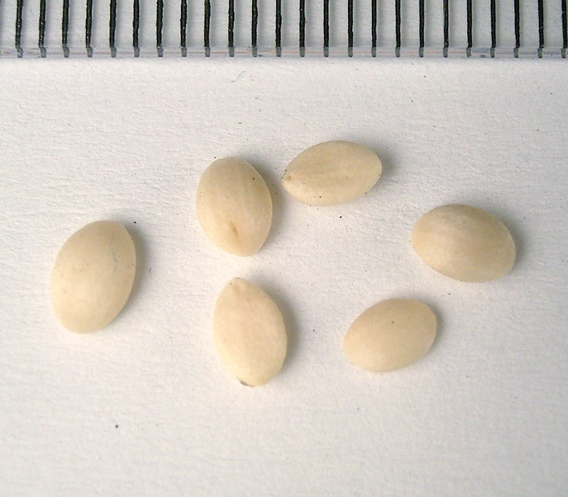 Symphoricarpos albus